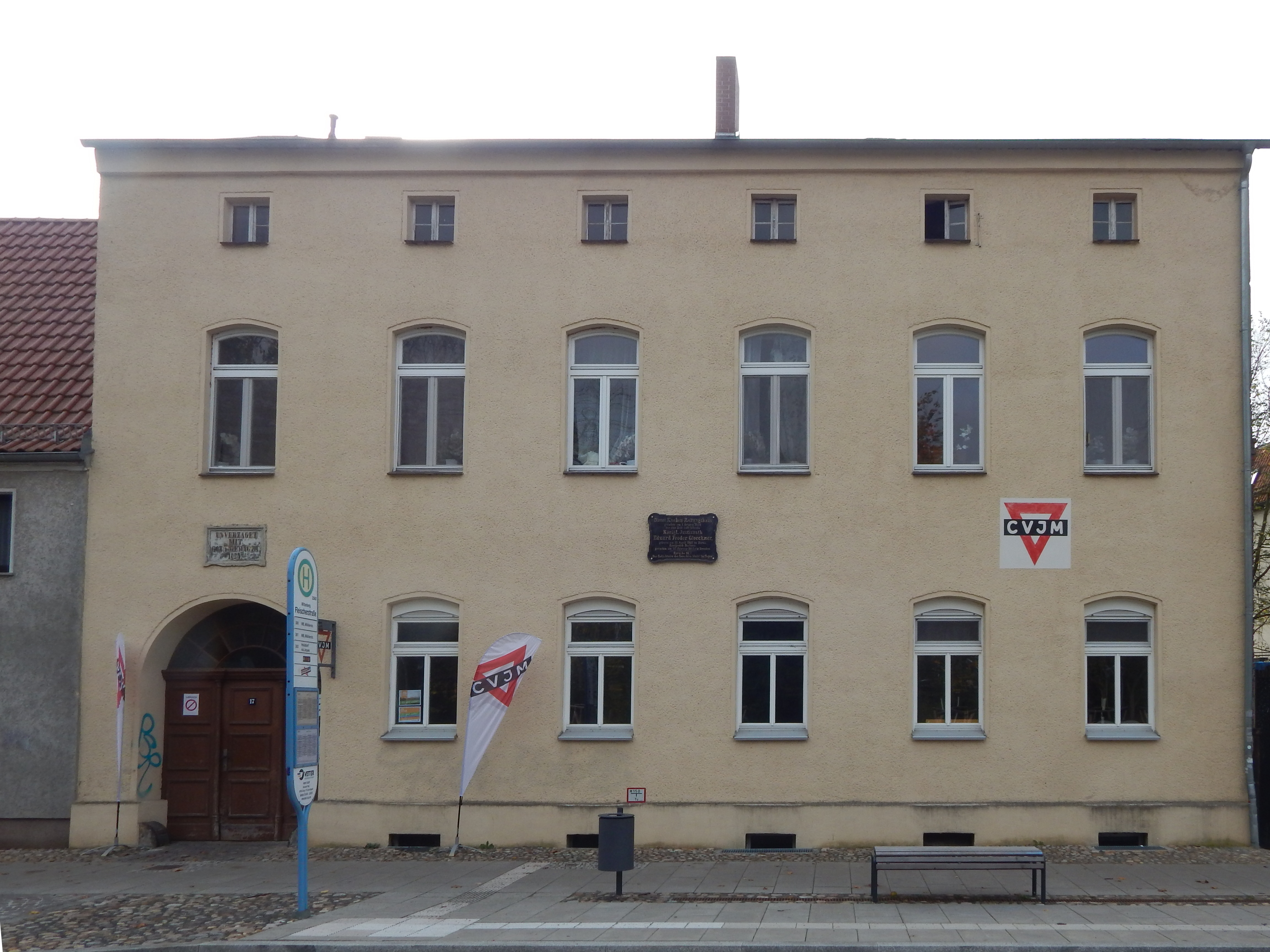 Building of the CVJM (Christian Society of young men) in Wittenberg, Fleischerstraße 17